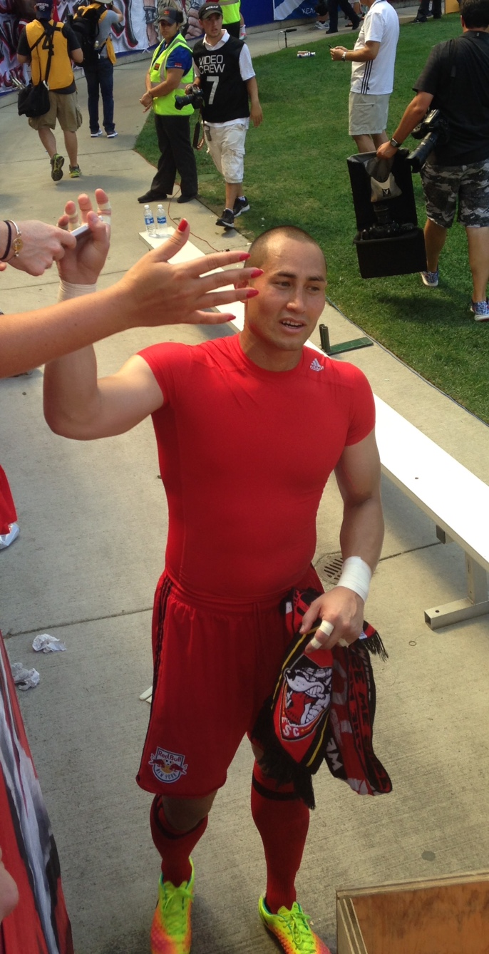 New York Red Bulls' goalkeeper, Luis Robles celebrating with the Southward supporters after a victory.